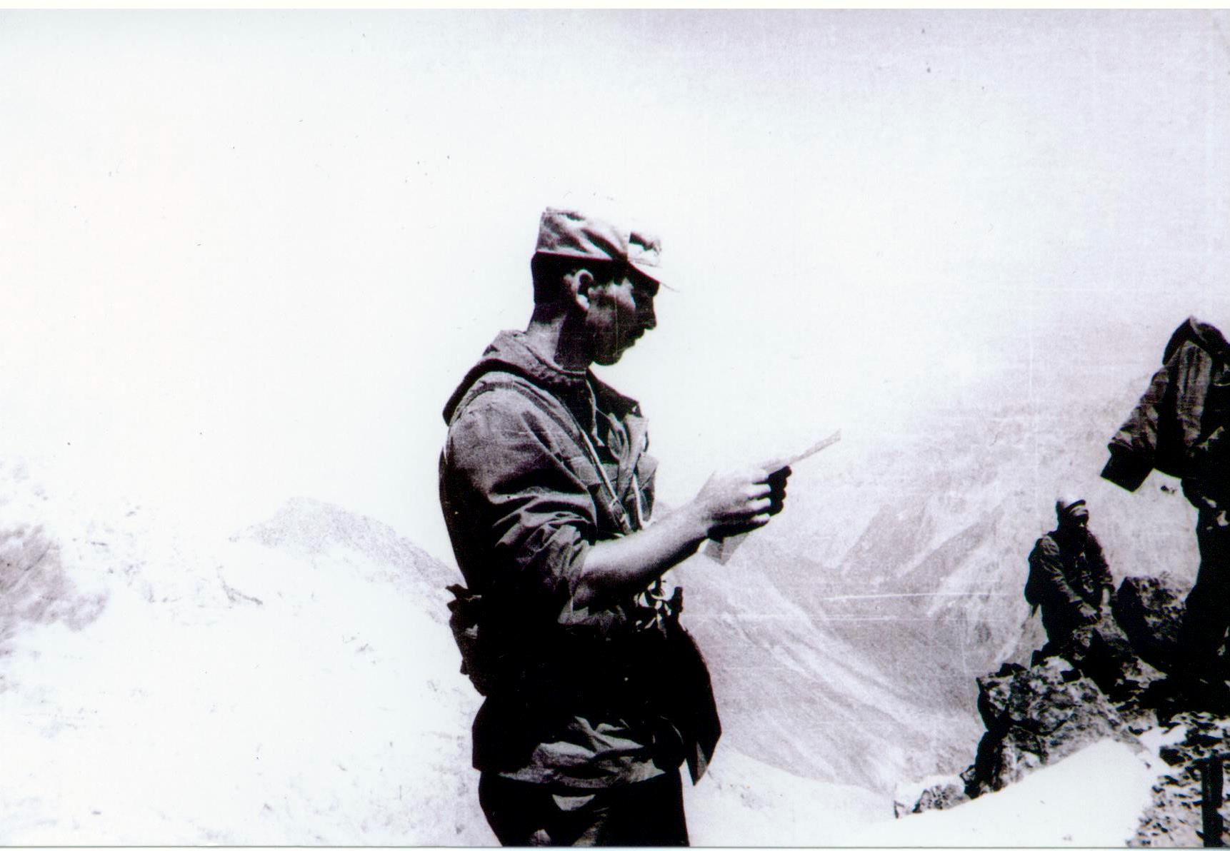 Sr. Lt. Leonid Khabarov standing atop the VDV Peak.